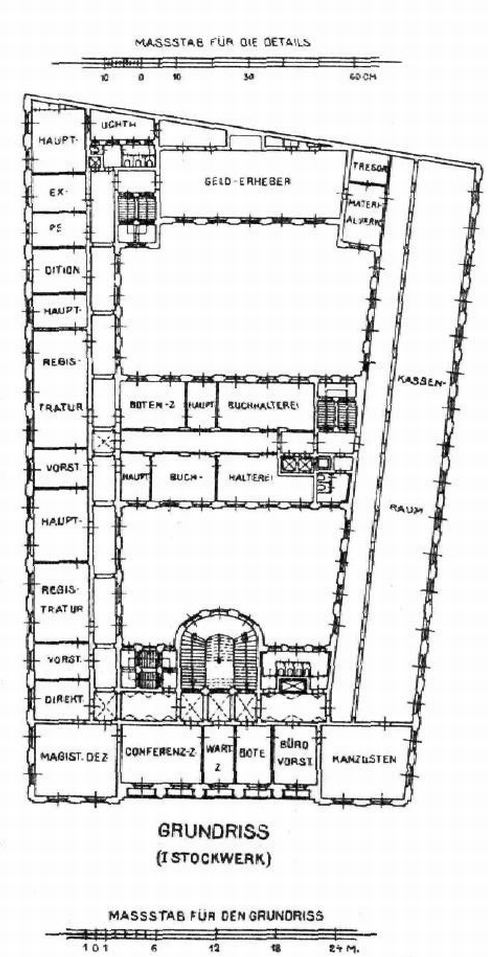 Floor plan of the GASAG building on Littenstraße (bottom) and Stralauer Straße (right) in Berlin-Mitte, built 1907 to 1909 by architect Ludwig Hoffmann.